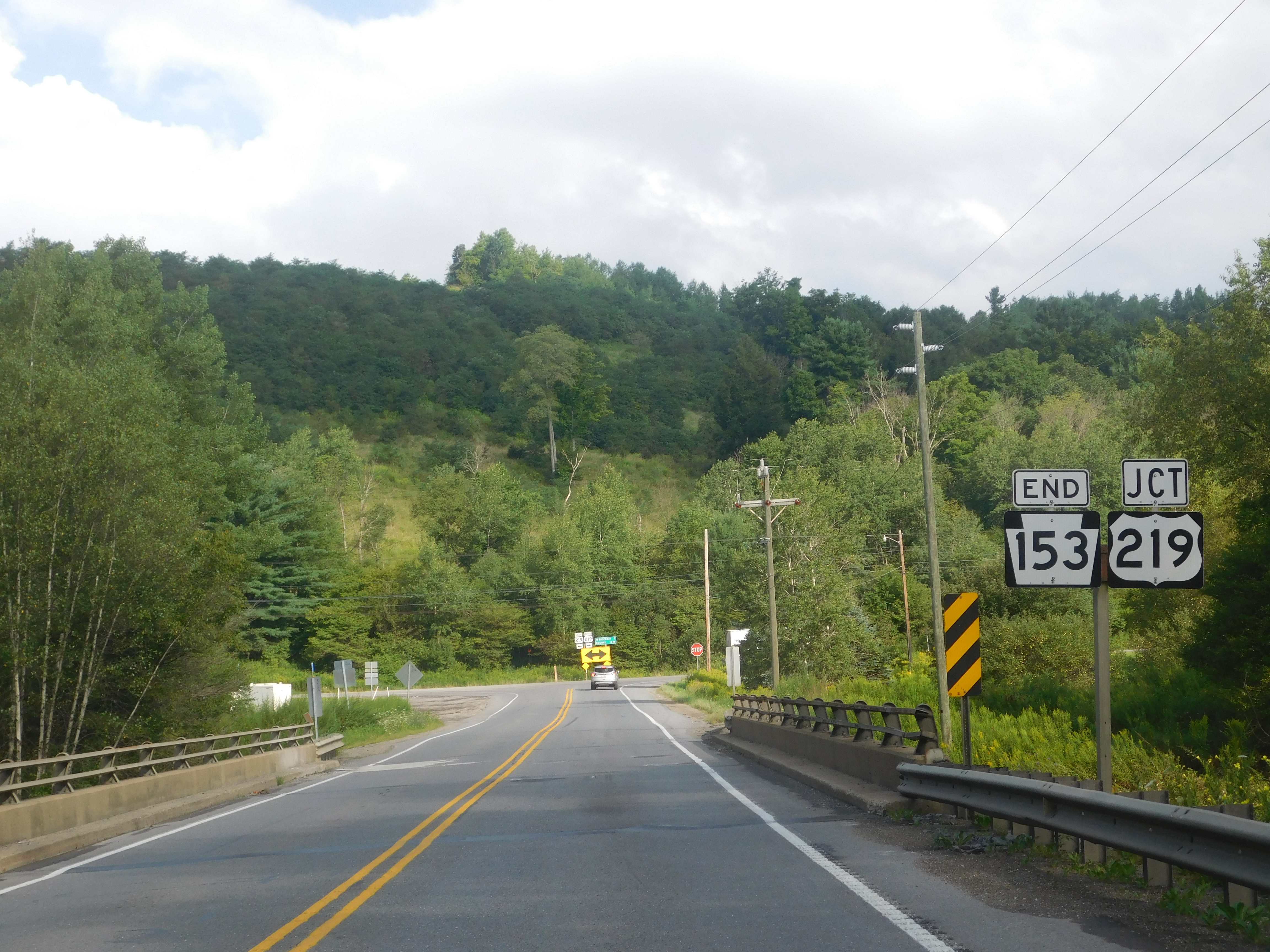 Pennsylvania Route 153 in Helen Mills, Pennsylvania.